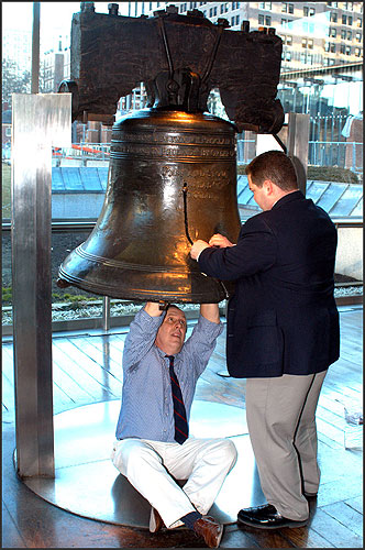 To ensure that the Liberty Bell remains all it's cracked up to be—but not a micron more—engineers attached wireless sensors to monitor the slightest changes in the Bell's famous fissure as the Liberty Bell was moved into its new home on October 9, 2003. Andrew Lins (sitting), chief conservator of the Philadelphia Museum of Art and metals conservation consultant to the National Park Service on preserving the Liberty Bell, worked with MicroStrain’s Steven Mundell to carefully clamp sensor devices to the icon. Read more about wireless sensors and moving the Liberty Bell at Photo Credit: Curt Suplee, National Science Foundation Visit NSF’s Multimedia Gallery, at for more images, and for video.